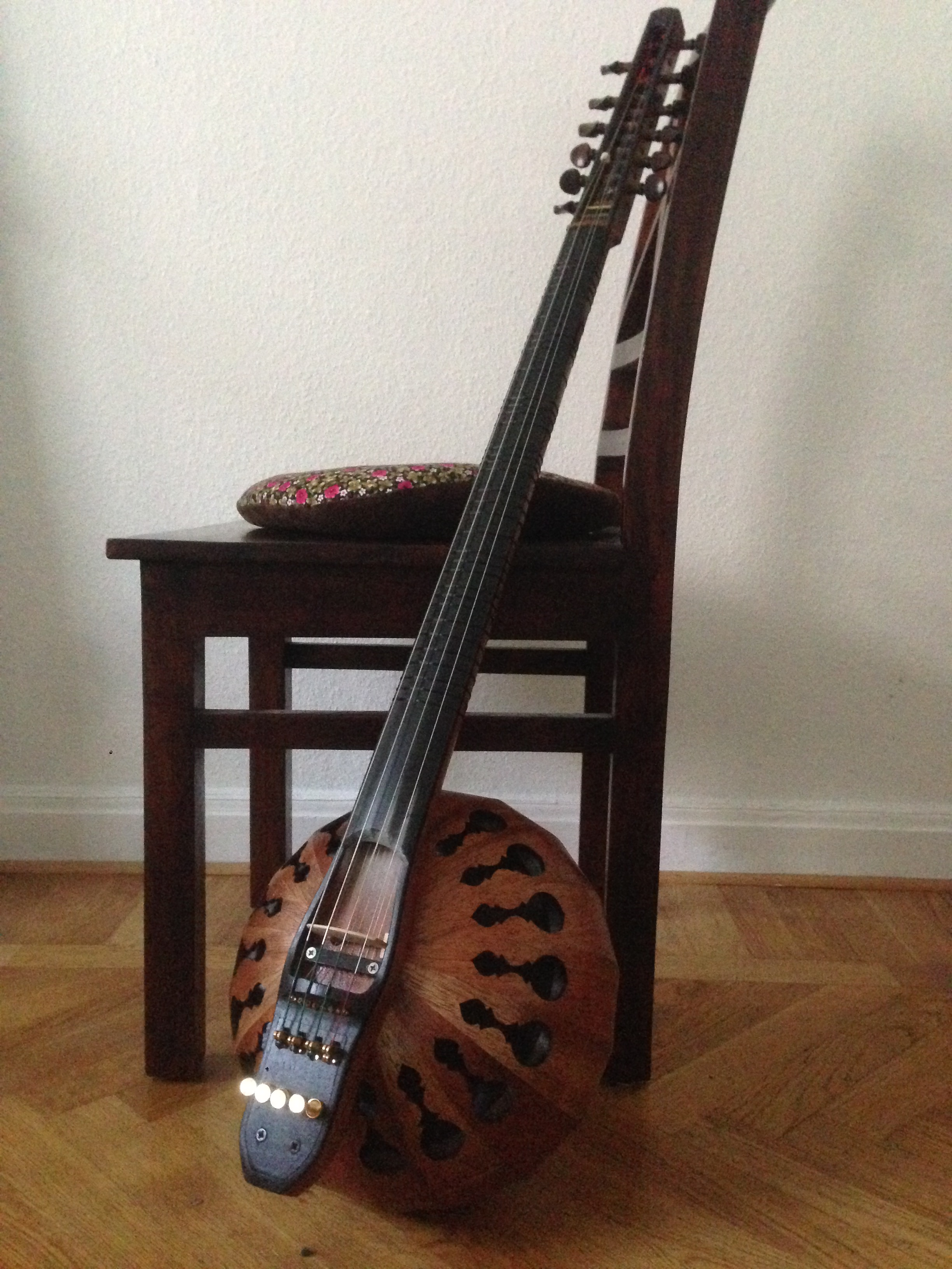 Long Neck Tarhu designed by Mazdak Ferydooni, based on the original design by Peter Biffin